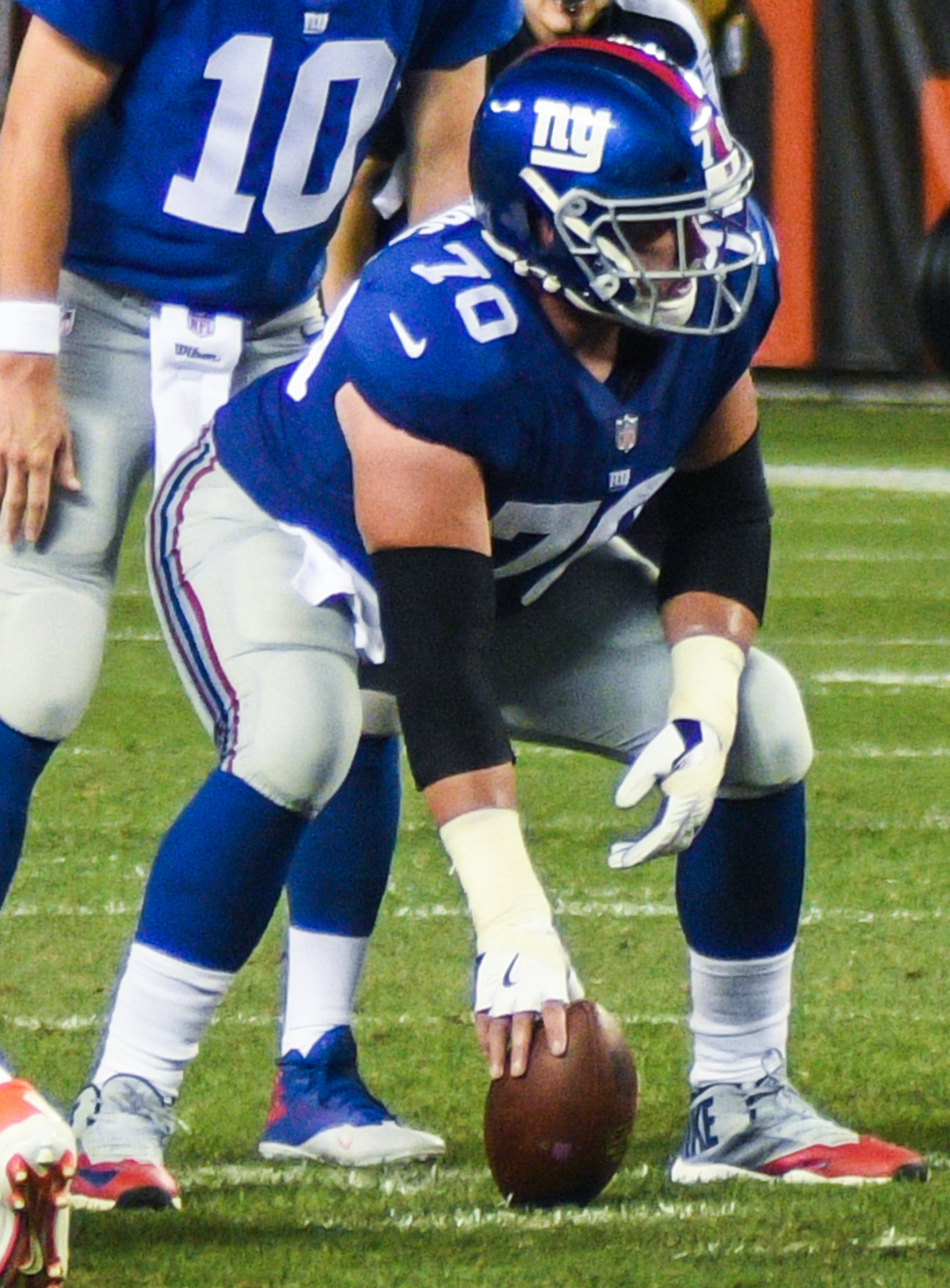 Cleveland Browns vs. New York Giants